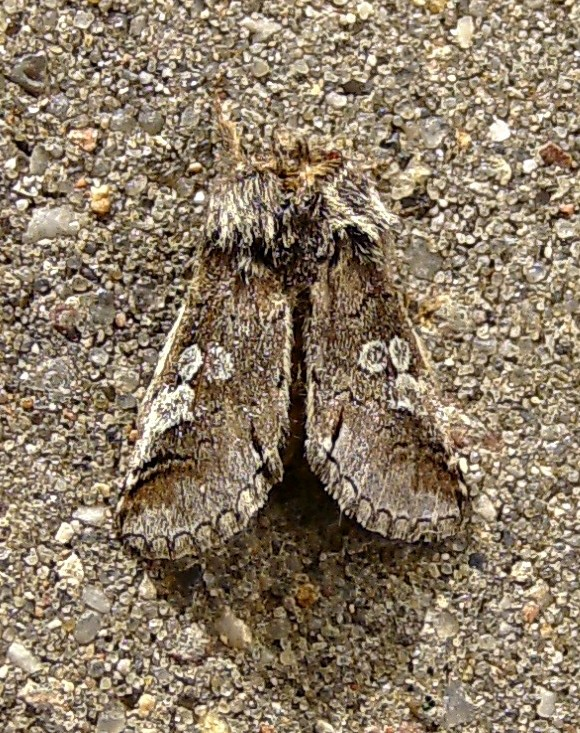 Diloba caeruleocephala, Weimar-Eichelborn Germany